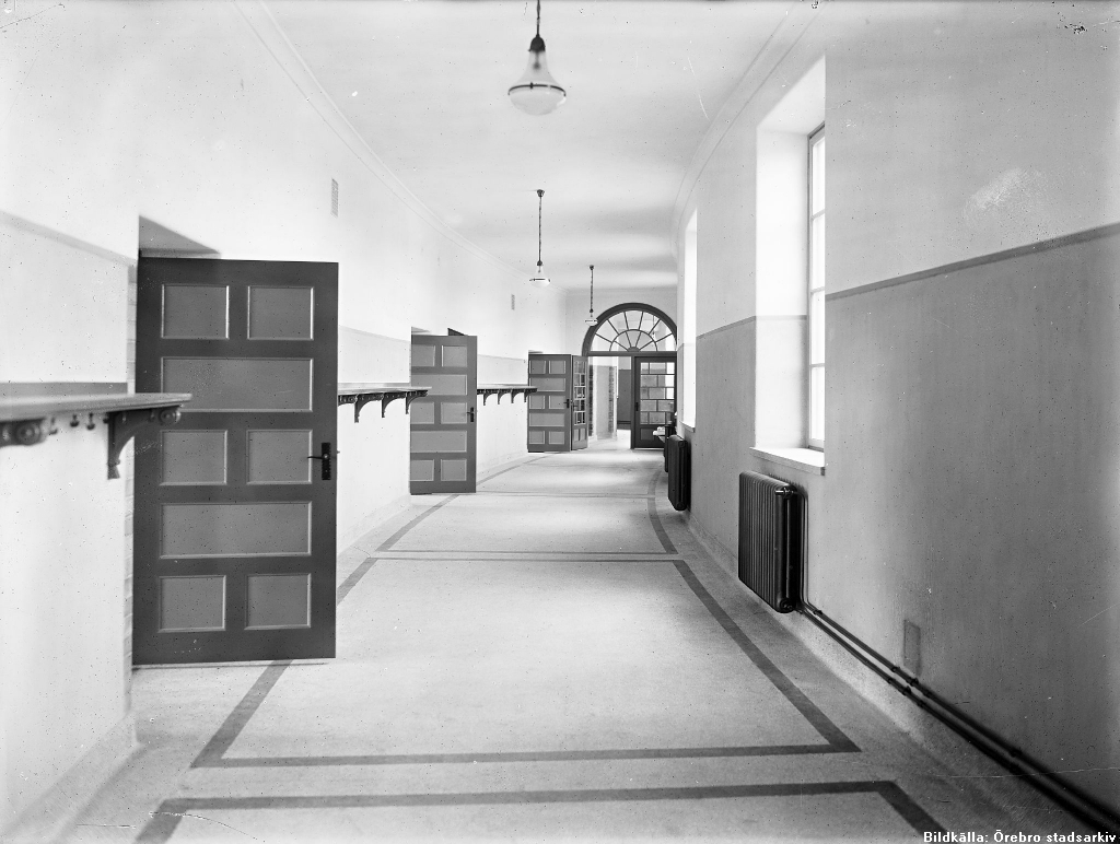 Interior of the old Engelbrekt school, Örebro, Sweden